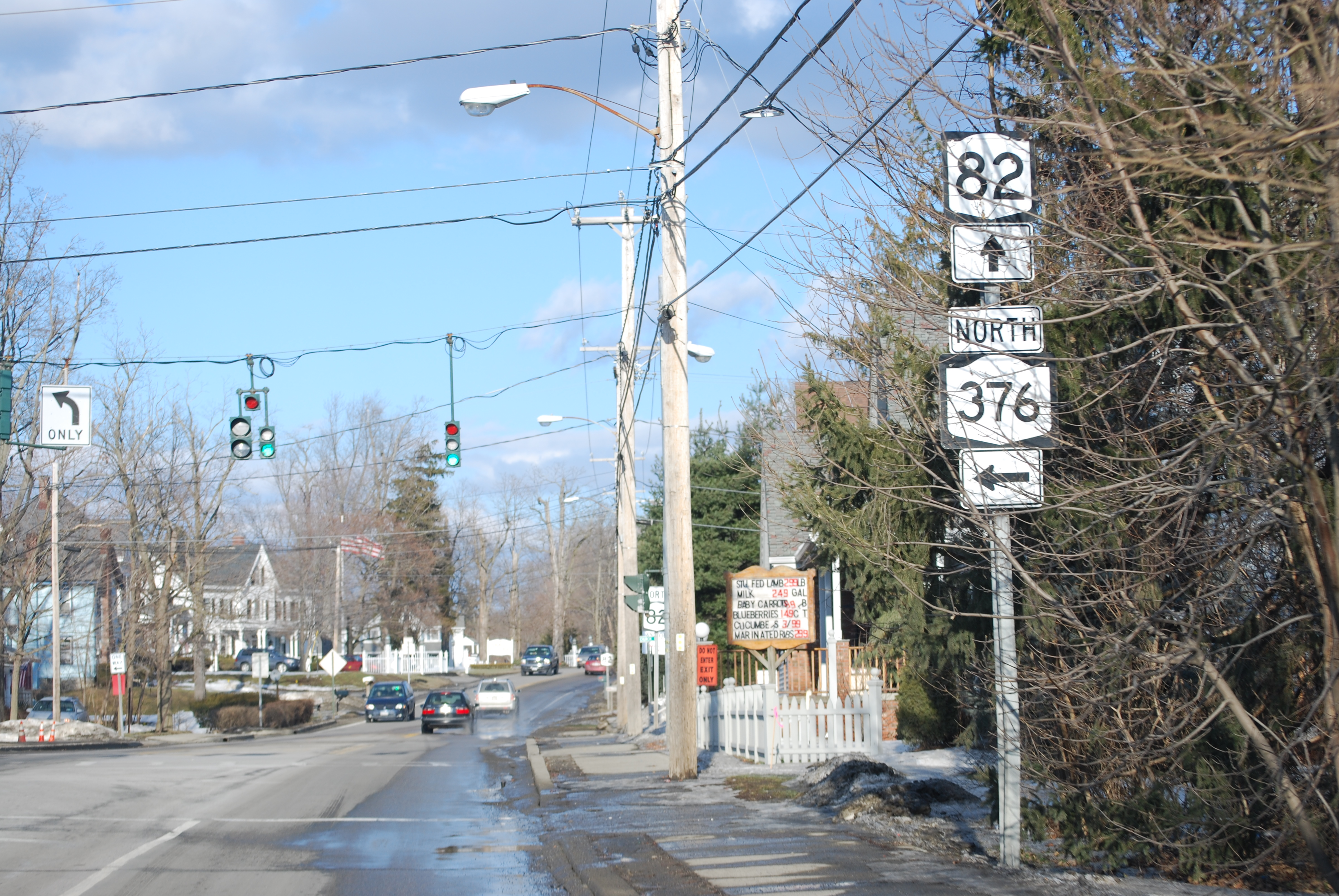 NY Route 376 at the intersection with Route 82 in Hopewell Junction, New York